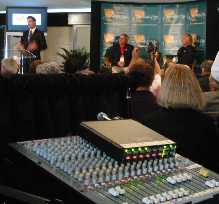 Photograph of an Allen & Heath MixWiz audio mixer with a Dugan E-1 automixer sitting on top of its knobs. The automixer is controlling microphones for a press conference held at Harding Park in San Francisco. The people on stage are Gavin Newsom, Fred Couples and Greg Norman. Announcements are being made regarding the President's Cup, a golf tournament to be held at Harding Park in 2009. Allen & Heath MixWizard WZ3 16:2 Dugan Model E-1 Automatic Mixing Controller